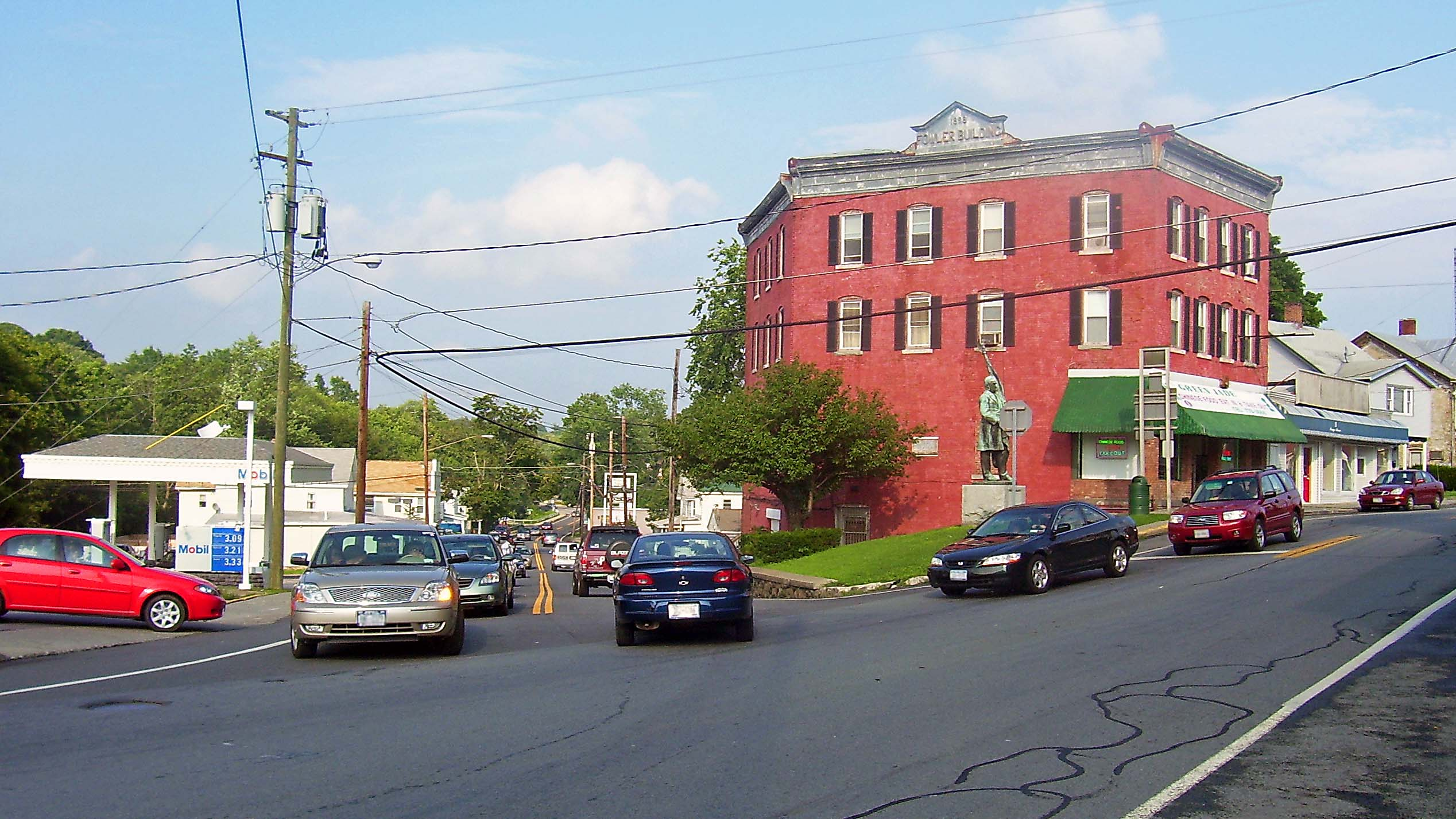 East/south end of short overlap of NY 52 and 208 in Walden, NY USA